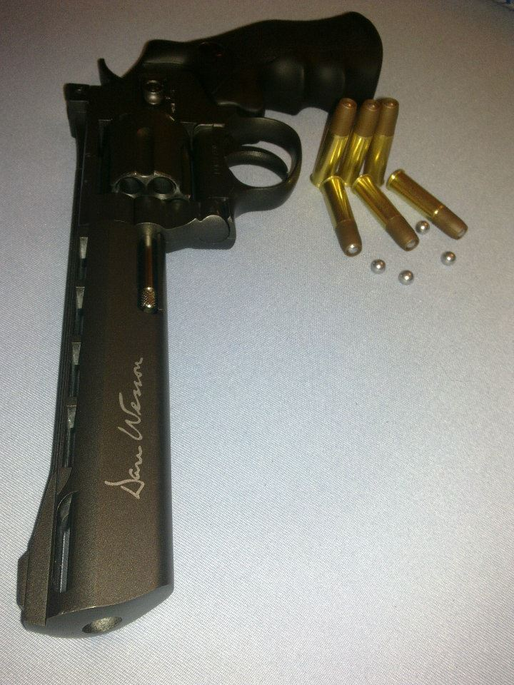 An airsoft CO2 Dan Wesson revolver, made by ASG.